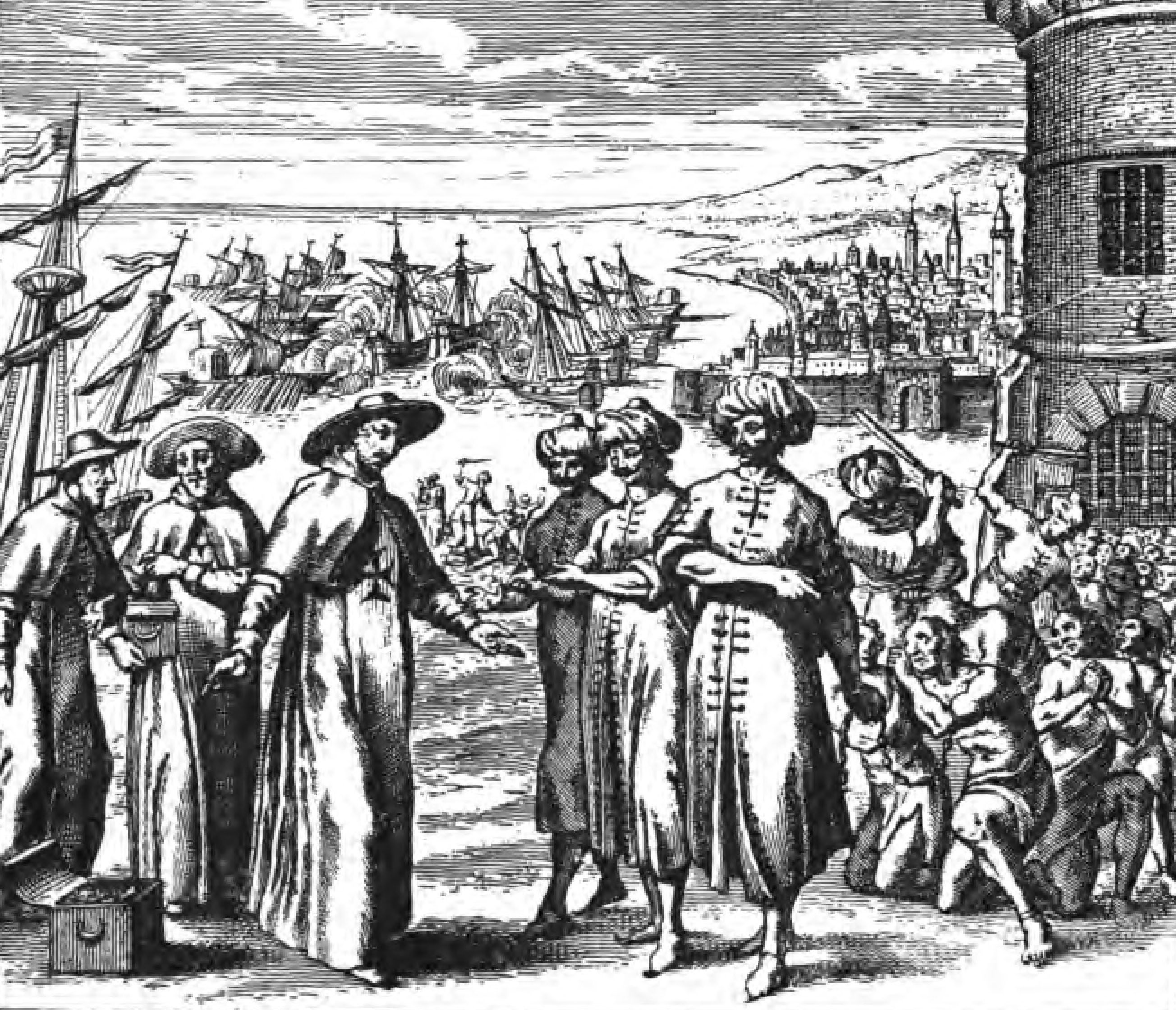 Fathers of the Redemption, found in The Story of the Barbary Corsairs' by Stanley Lane-Poole, published in 1890 by G.P. Putnam's Sons.